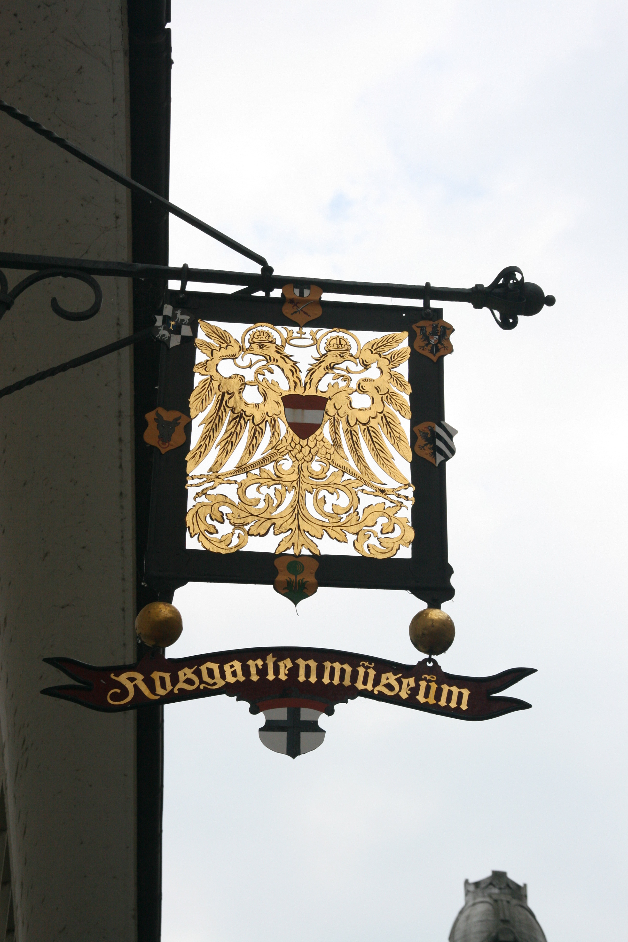 A Sign in front of the Rosgartenmuseum